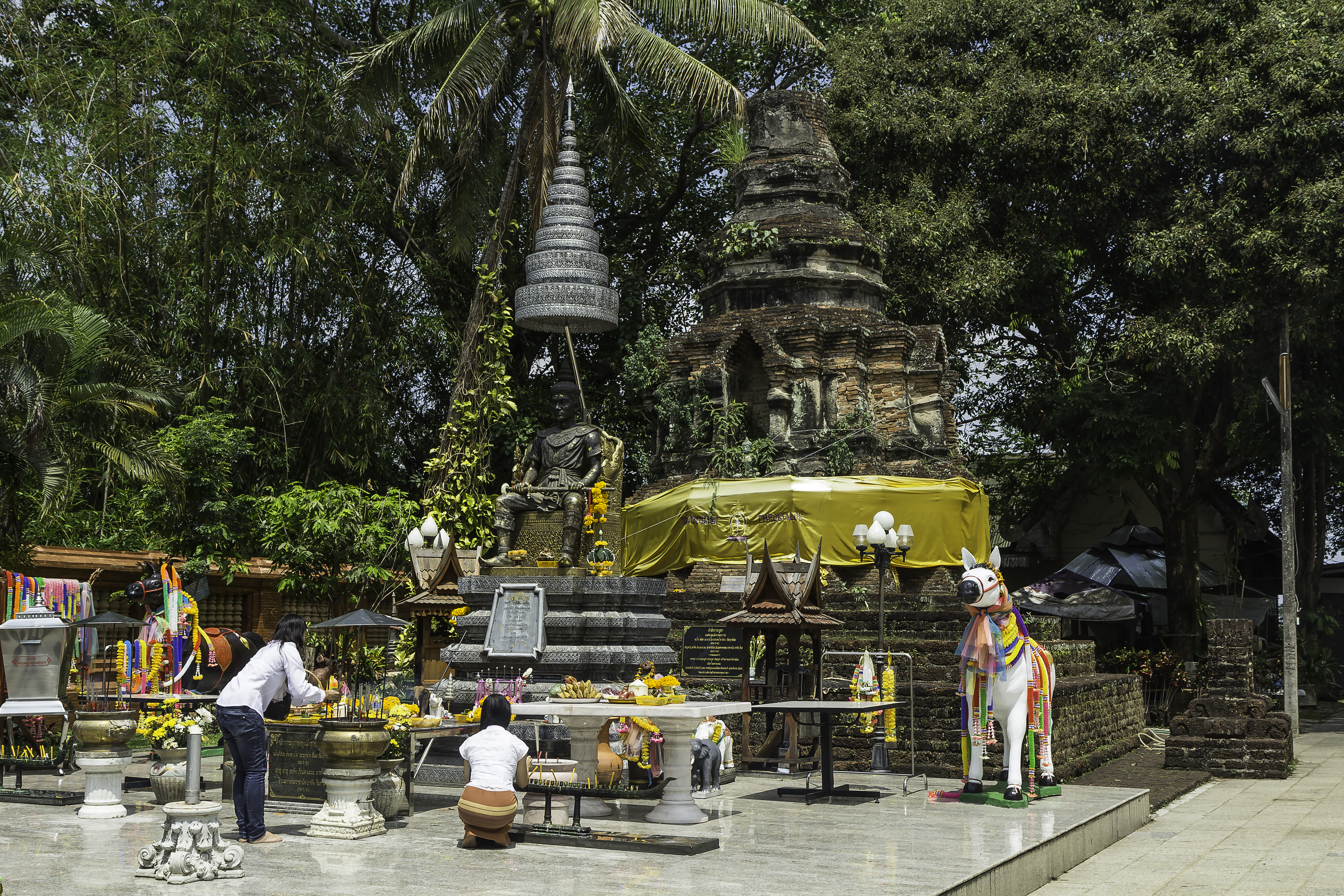 King Menrai at Wat Doi Ngam Mueang, Chiang Rai, Thailand